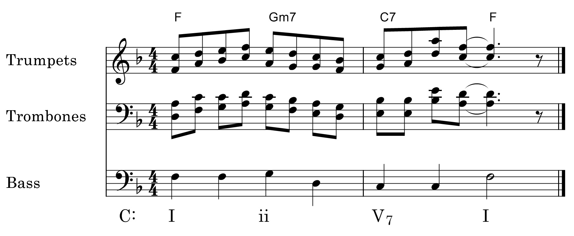 4 voice sectional harmony in drop 2 & 4.